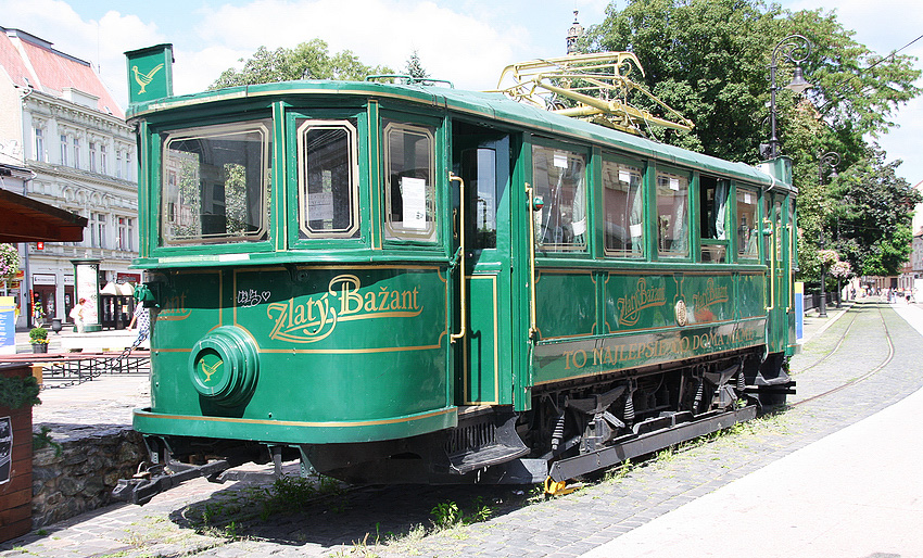 Kosice (Kassa) - old tram on Hlavna